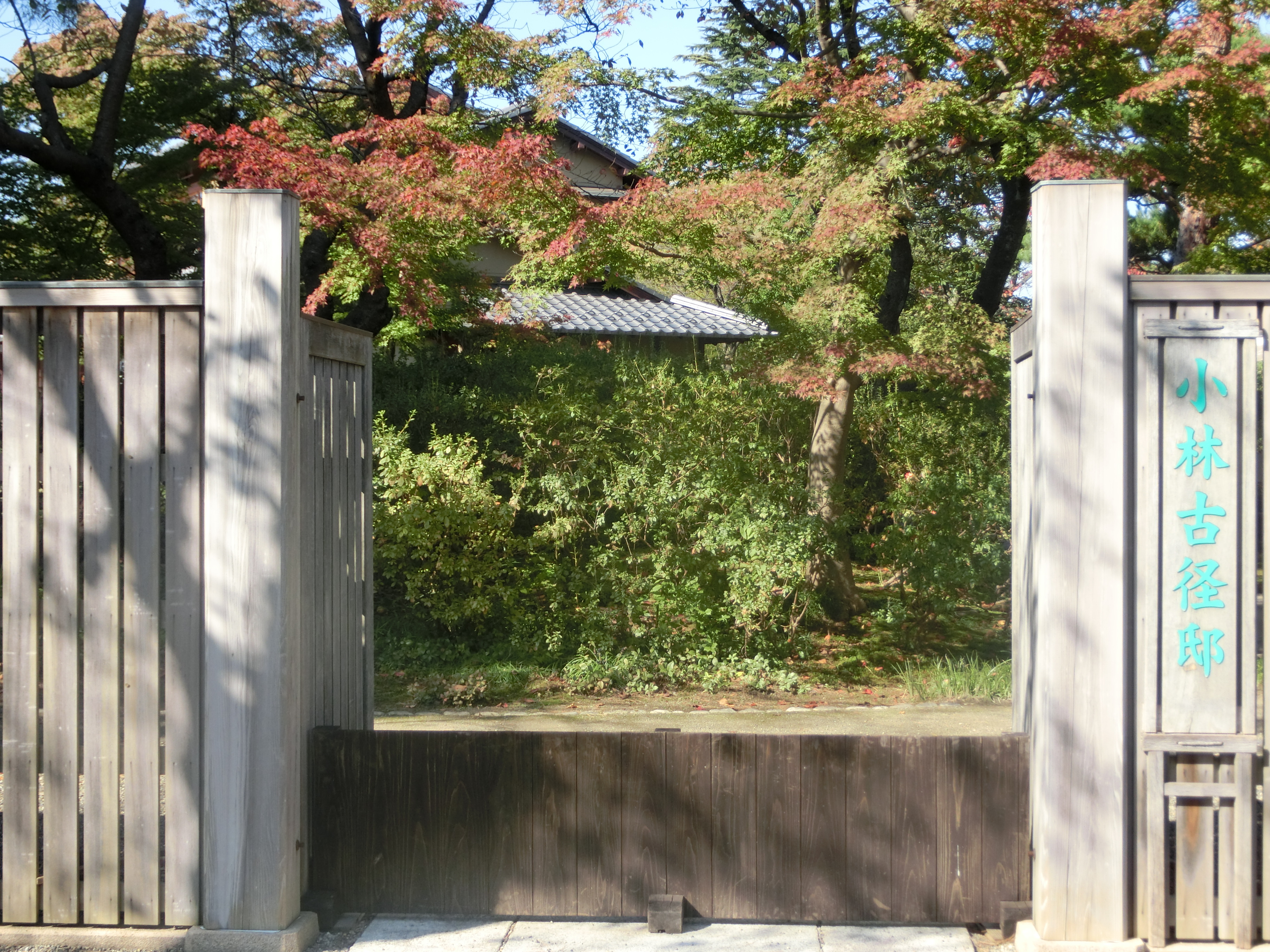 Entrance to Kobayashi Kokei House